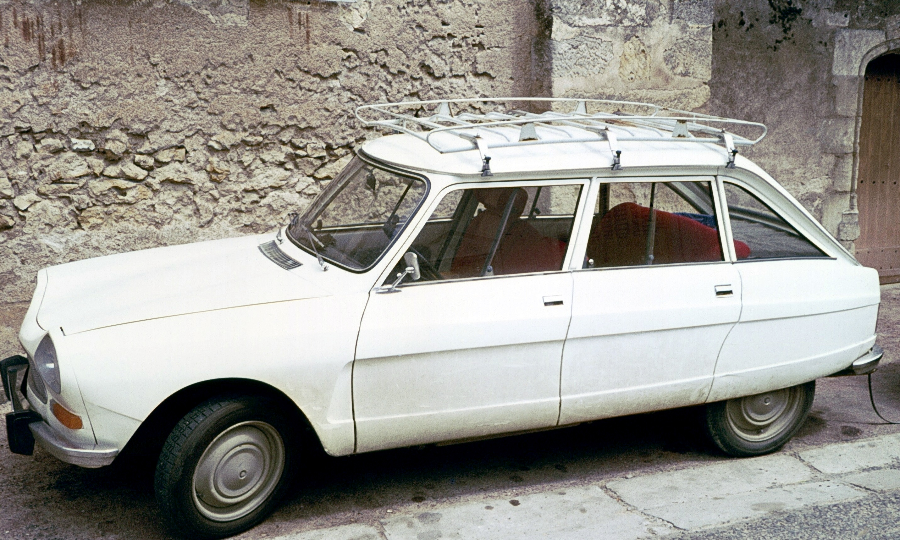 Citroen Ami 8 Tourraine